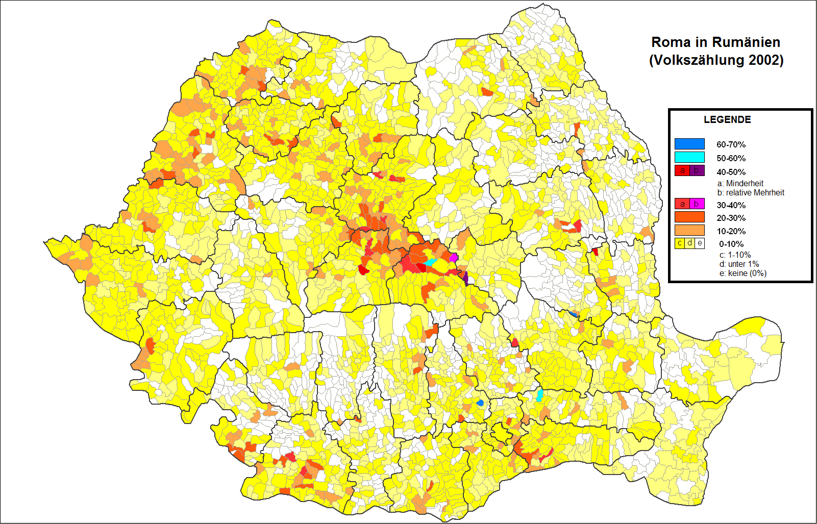 The distribution of the Roma minority in Romania (census 2002)